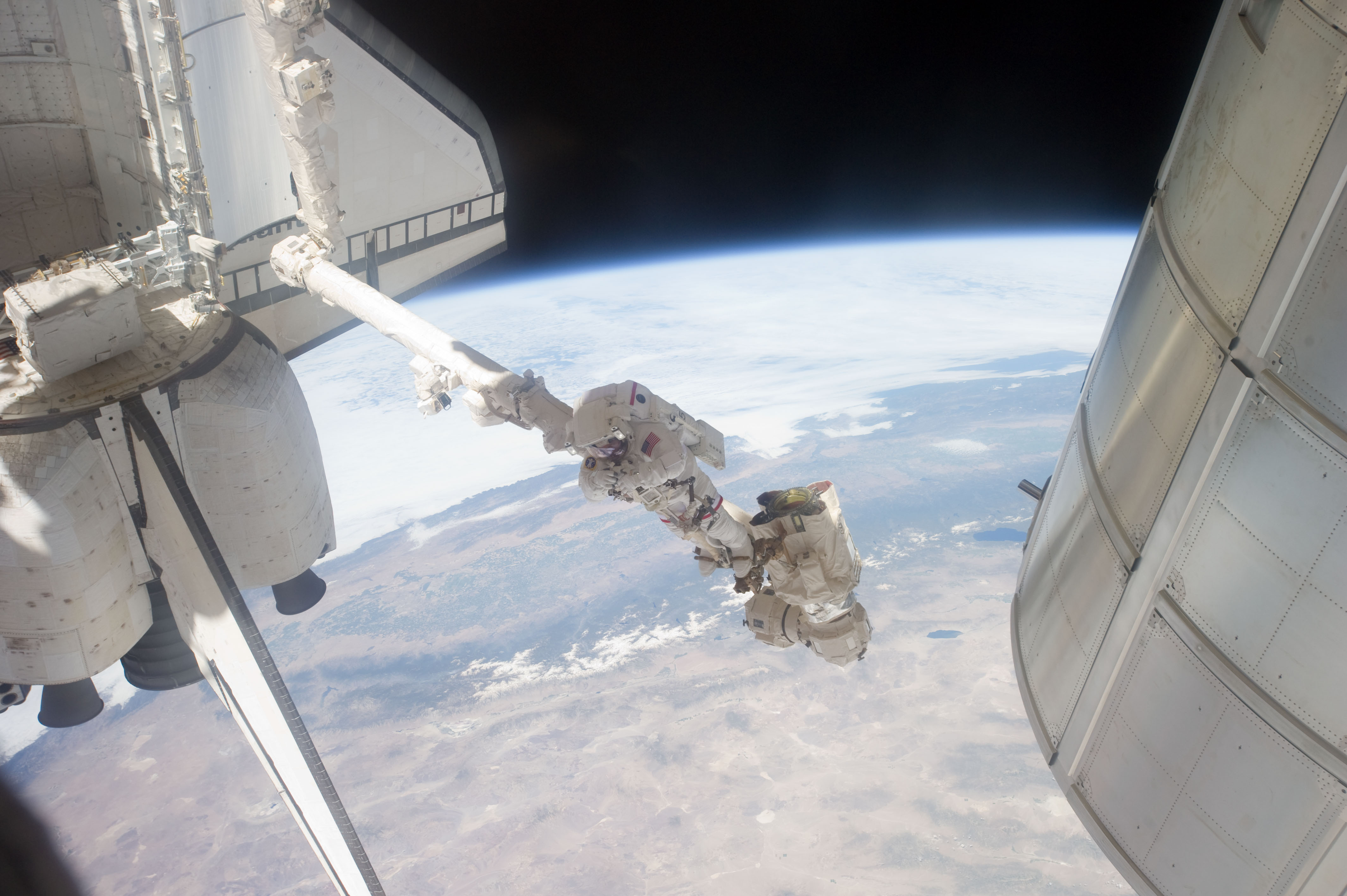 Suspended in a very unique position on the end of the space station remote manipulator system or Canadarm2, NASA astronaut Mike Fossum takes a picture during a July 12 spacewalk. Fossum and NASA astronaut Ron Garan spent just a little over six and a half hours on their various tasks.